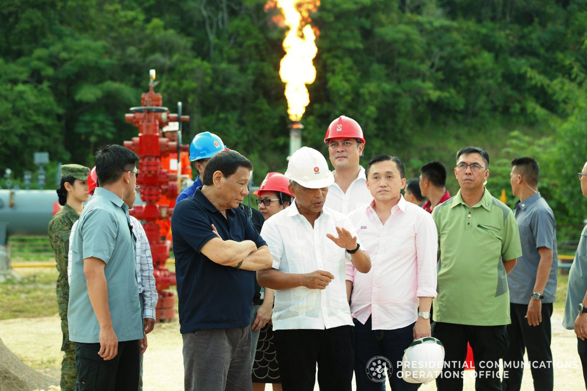 President Rodrigo Roa Duterte shows a gesture of respect as he takes center stage during the San Beda University (SBU) Commencement Exercises at the Philippine International Convention Center in Pasay City on May 29, 2018.